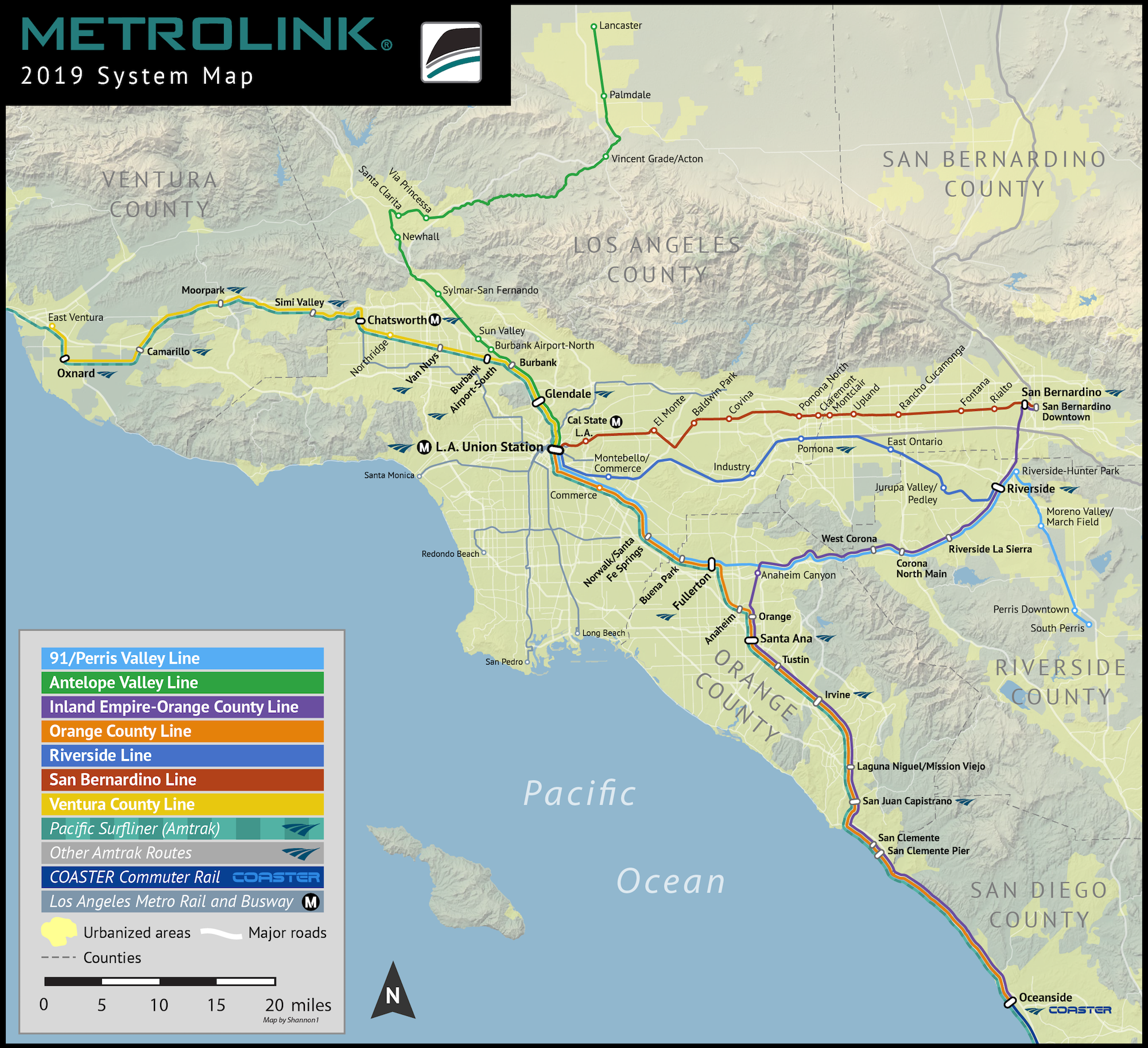 Map to scale of the Metrolink commuter rail network in Southern California. Made using USGS National Map data. Current rail line & station info referenced from Metrolink website.